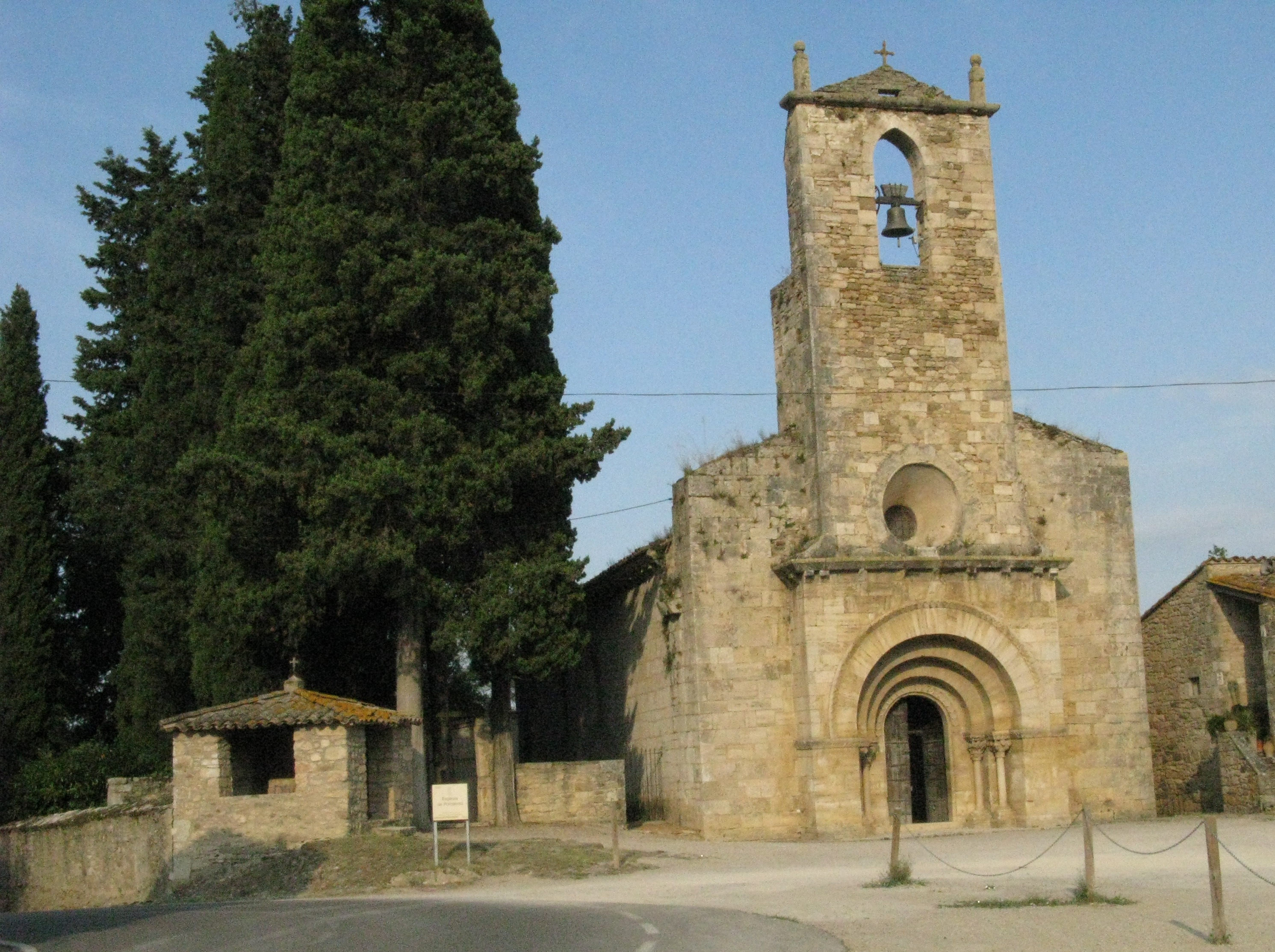 Romanesque Church Santa Maria de Porqueres with Comunidor, Catalonia